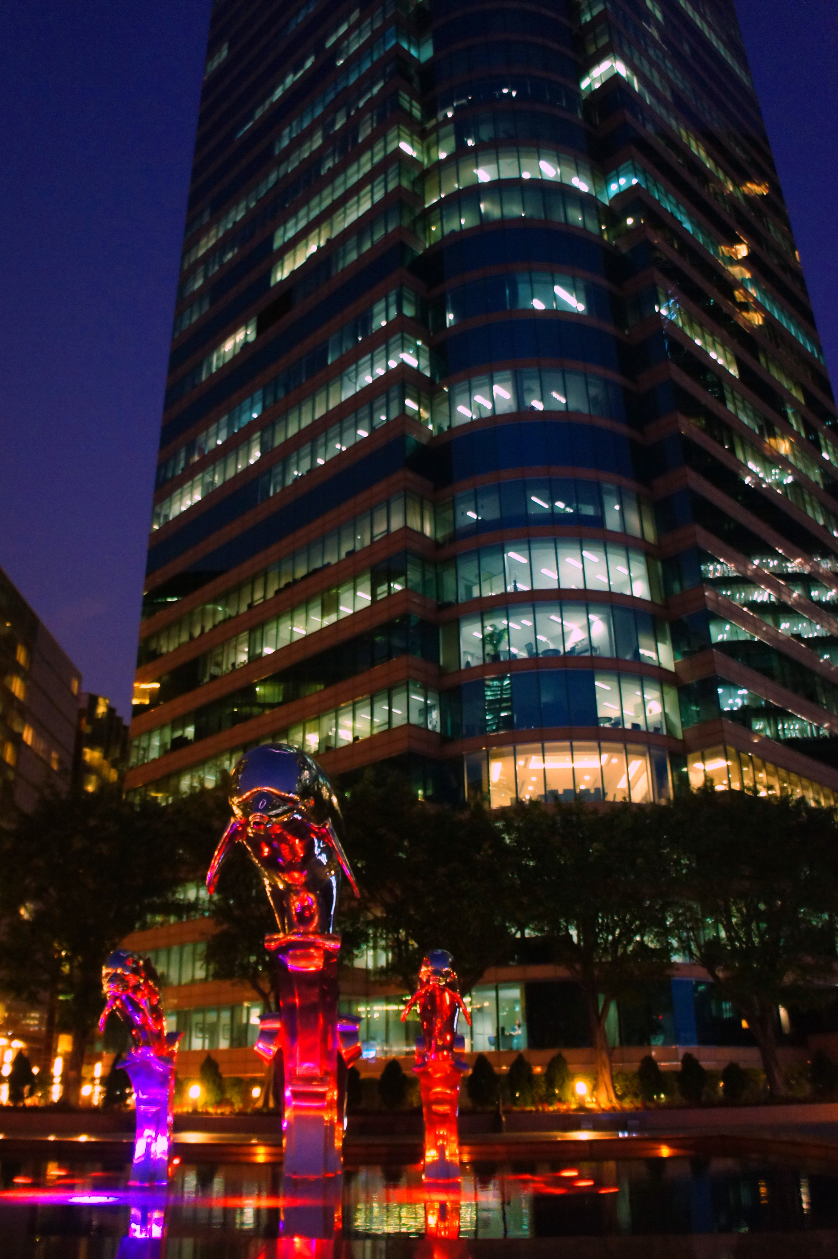 Dolphin Square, China Hong Kong City, Kowloon, Hong Kong.